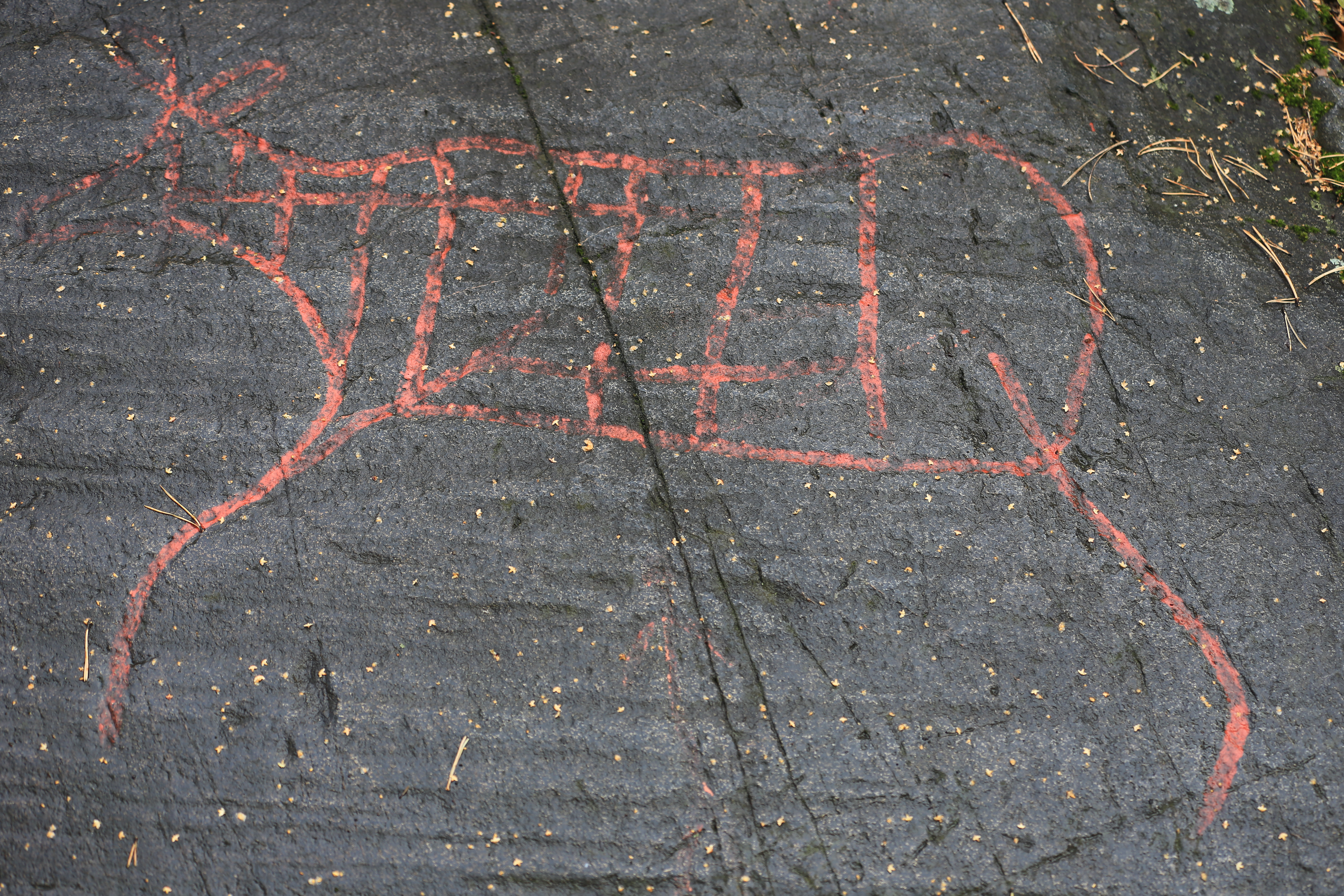 Rock art in Oslo, Norway